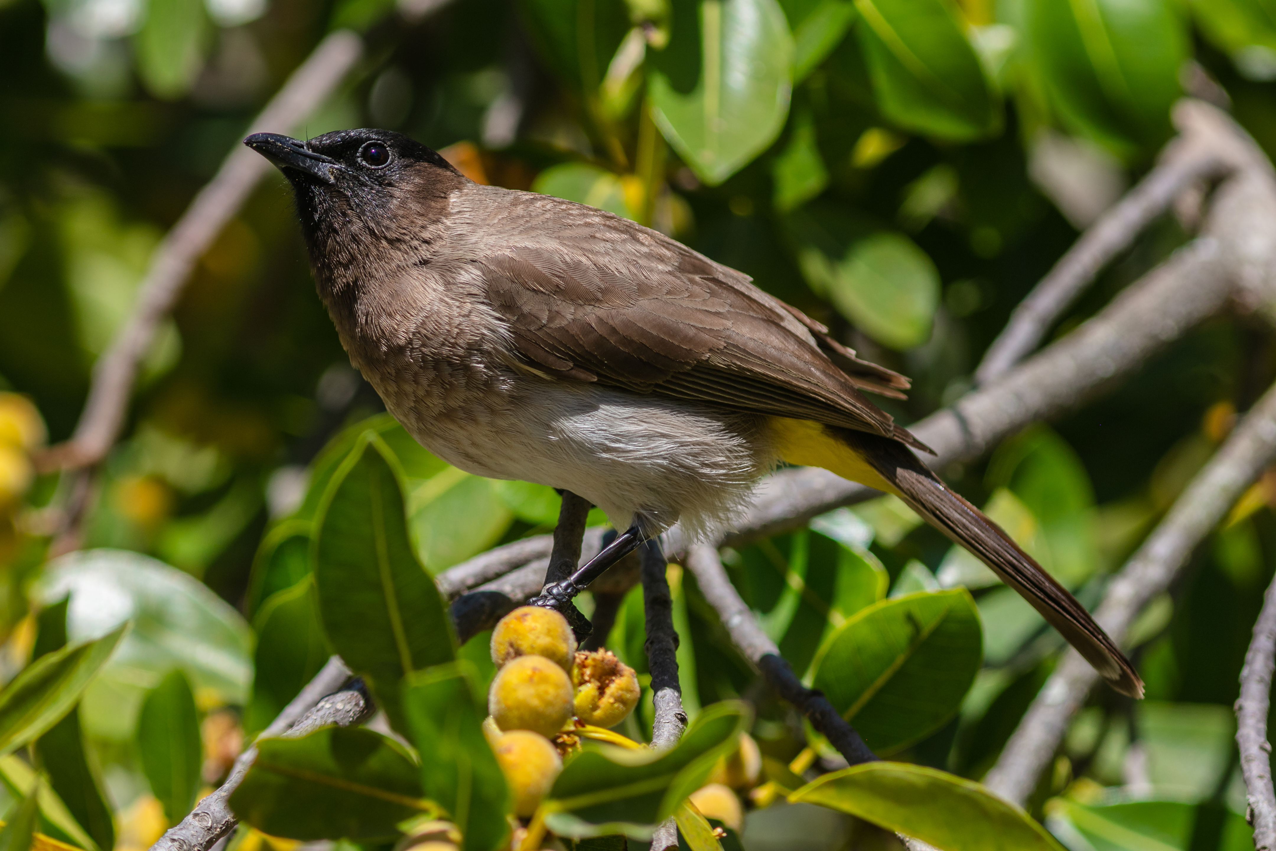 Dark-capped Bulbul (Pycnonotus tricolor), Kruger National Park, South Africa